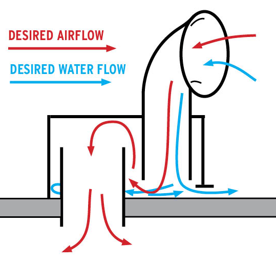 A cut-away diagram of a Dorade box showing the desired flows of air (in red) and water (in blue). The grey area represents the deck of the boat.